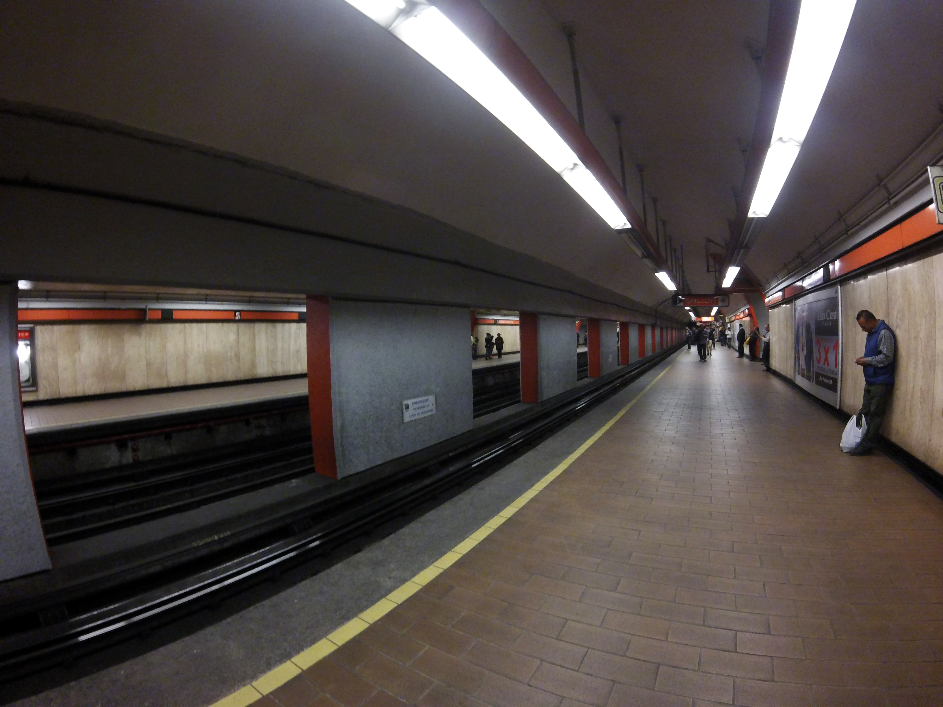 Railway platform in Constituyentes Metro station, Mexico City, December 2016.